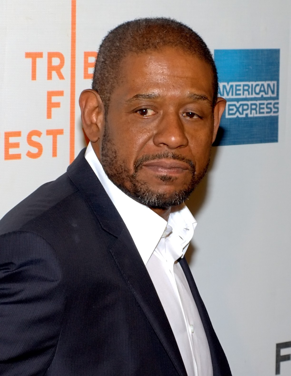 Forest Whitaker at Tribeca Film Festival 2010